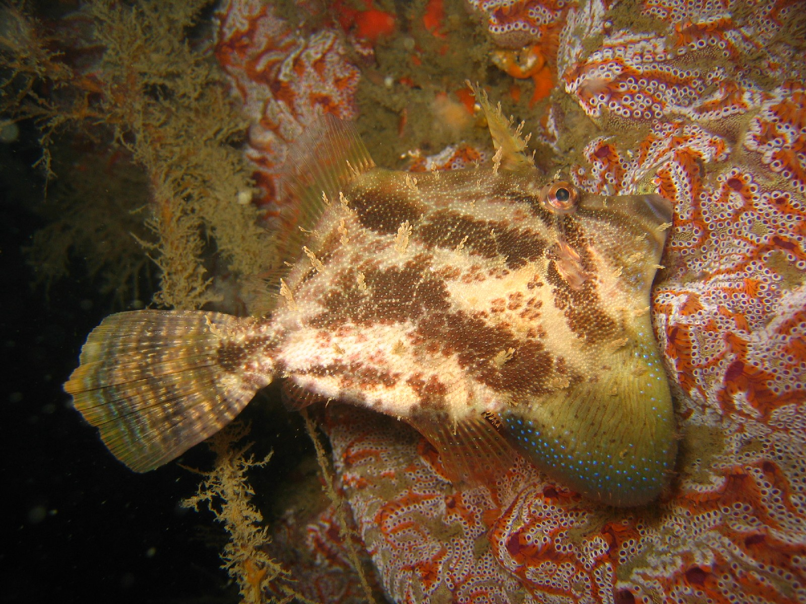 A Fan-bellied Leatherjacket (Monacanthus chinensis) displaying fan. Clifton Gardens, Mosman, NSW205697379